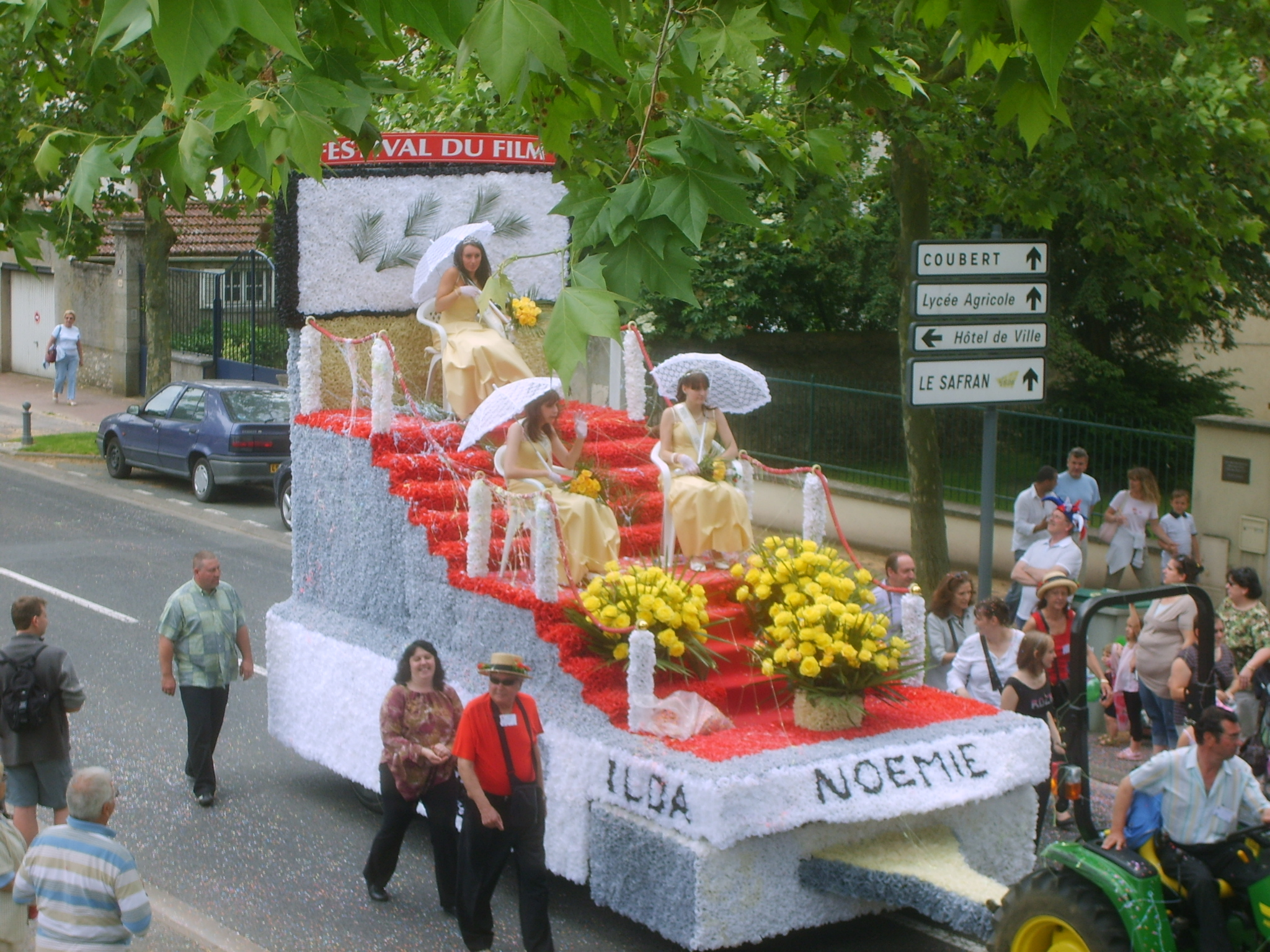 Reine de Brie in Festival of the Roses in Brie-Comte-Robert